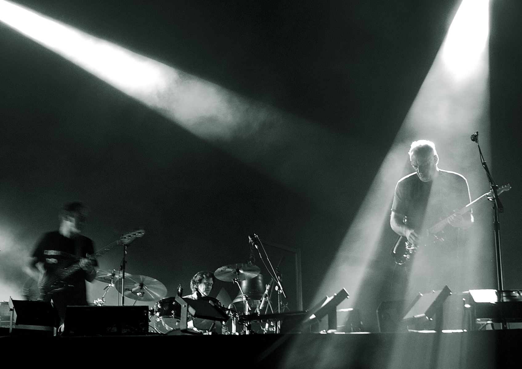 David Gilmour, Pink Floyd. Live in Munich, Koenigsplatz; July, 29 2006